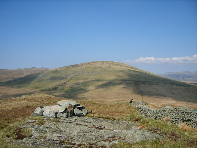 Cairn on The Pike Looking back towards Hesk Fell from the top of The Pike